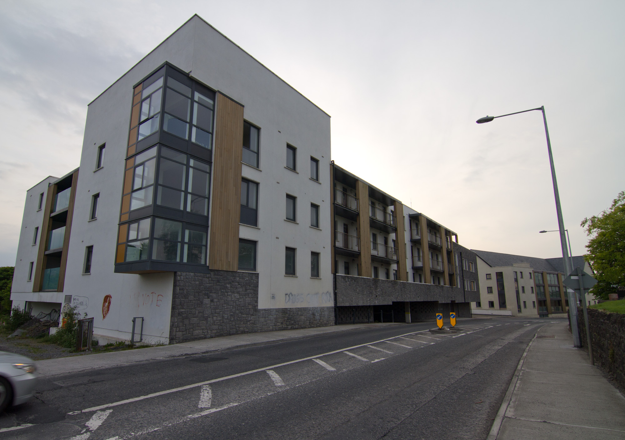 Ballysadare. An abandoned apartment block in Ballysadare.